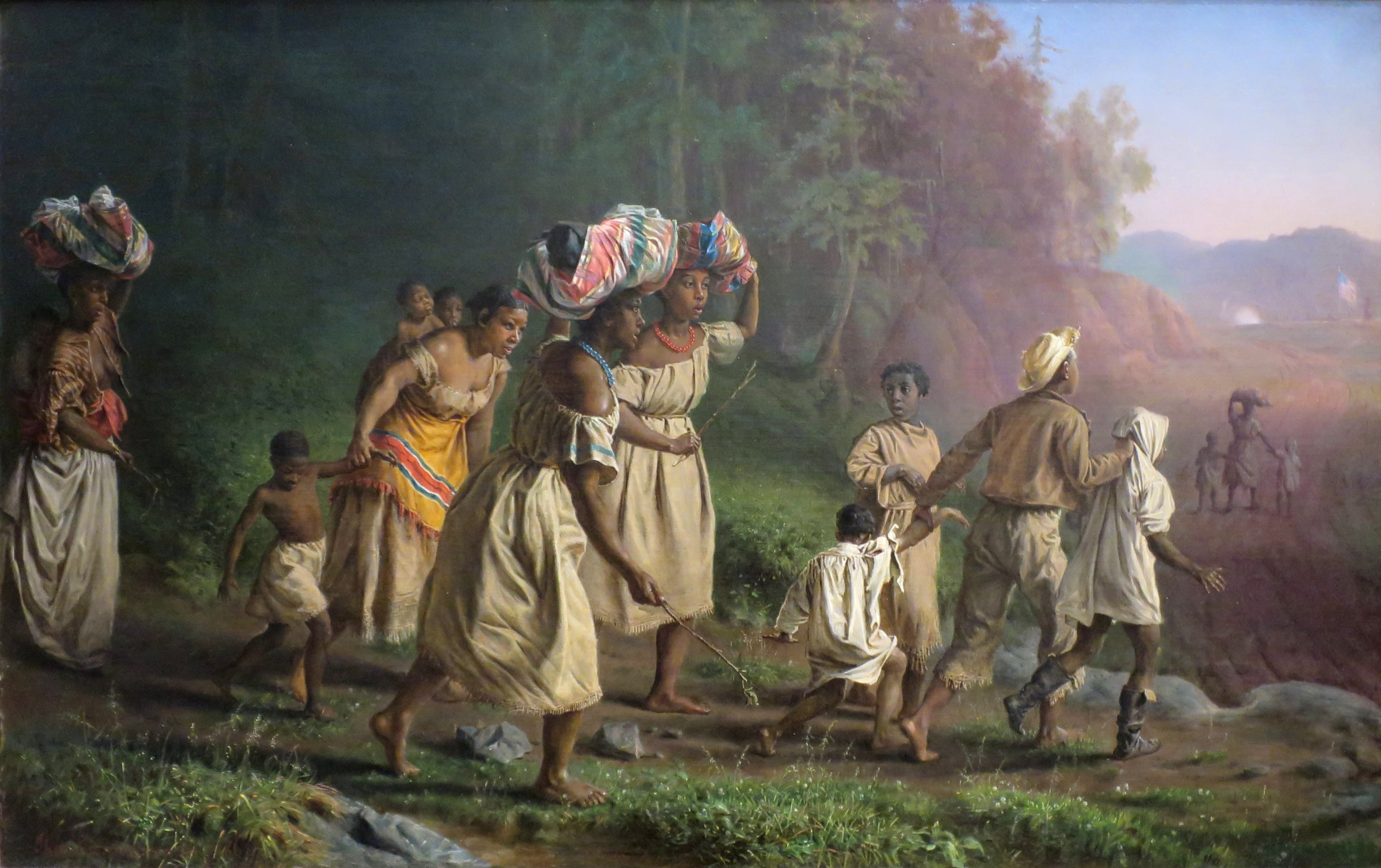 On to Liberty by Theodor Kaufmann, 1867, oil on canvas, Metropolitan Museum of Art